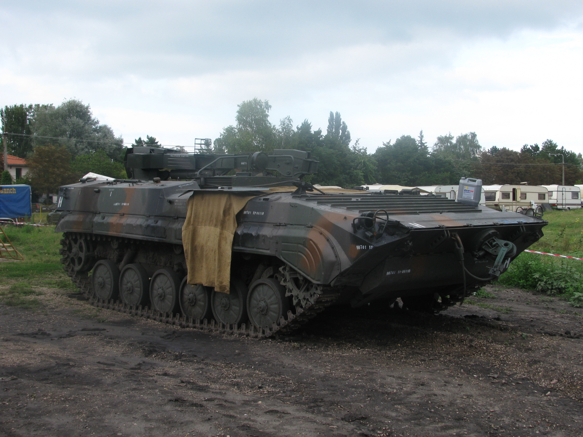 VPV (VPV stands for Vyprošťovací Pásové Vozidlo) – An ARV conversion (from a BVP-I), developed at the ZTS Martin Research and Development Institute. (CSSR)